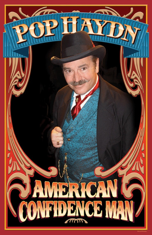 Poster for Pop Haydn's show